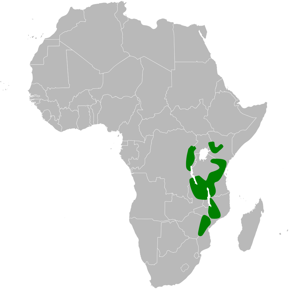 Elminia albonotata distribution map; using BlankMap-World6.svg, based on